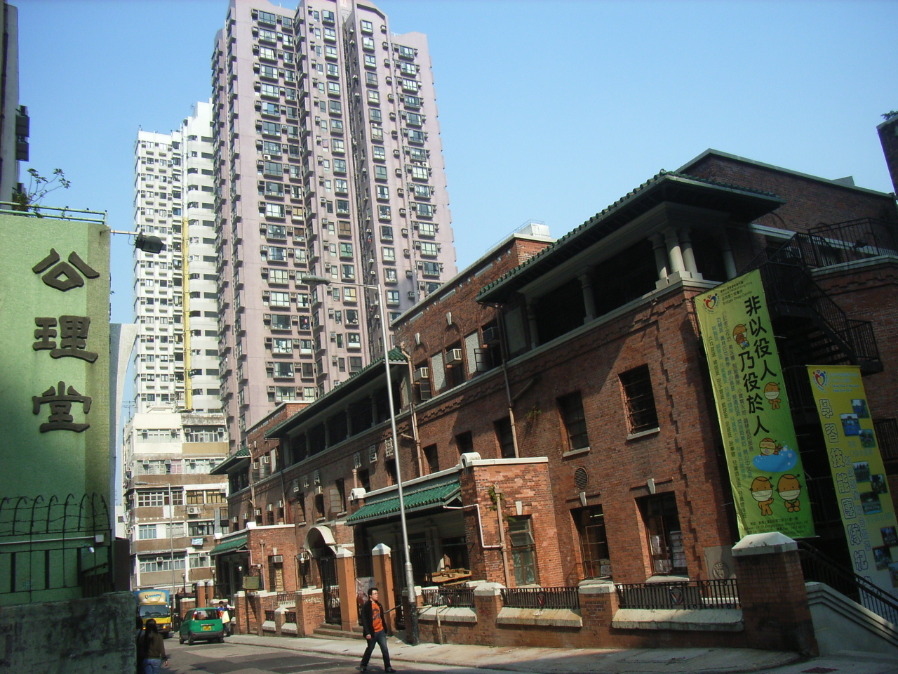 Bridge Street, Sheung Wan, Hong Kong (Photographer & author: User:BITBITSW).